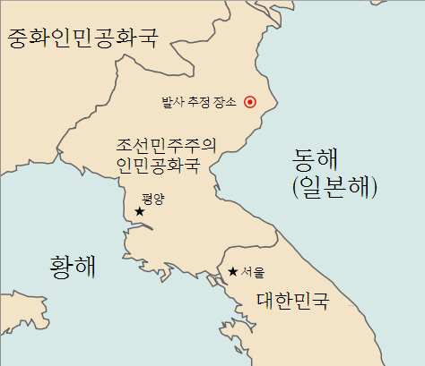 2006 NK Nuclear Test - Korean Version